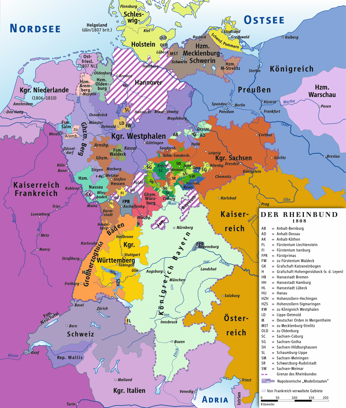 Karte des Rheinbundes 1808/Map of Confederation of the Rhine 1808